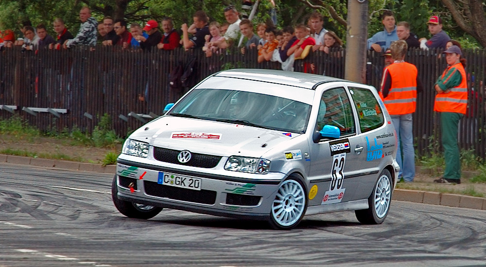 This image shows a VW Polo GTI 16V. The driver is Lars Keller, the co-driver is Mario Göckeritz. This photo has been taken during the Saxony rally racing 2005 in Zwickau (Germany).